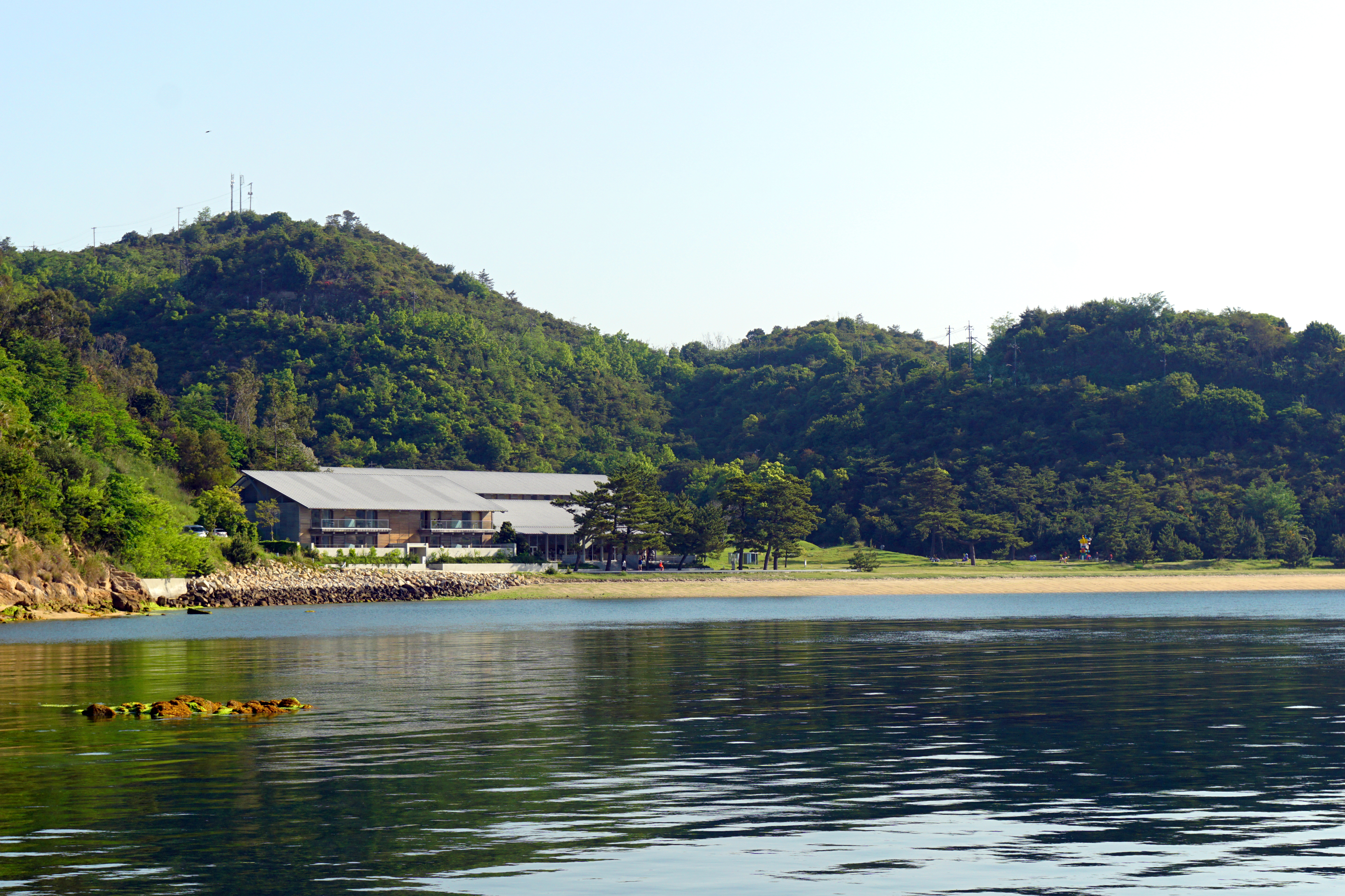 The Benesse House Beach at Benesse Art Site Naoshima in Naoshima, Kagawa prefecture, Japan